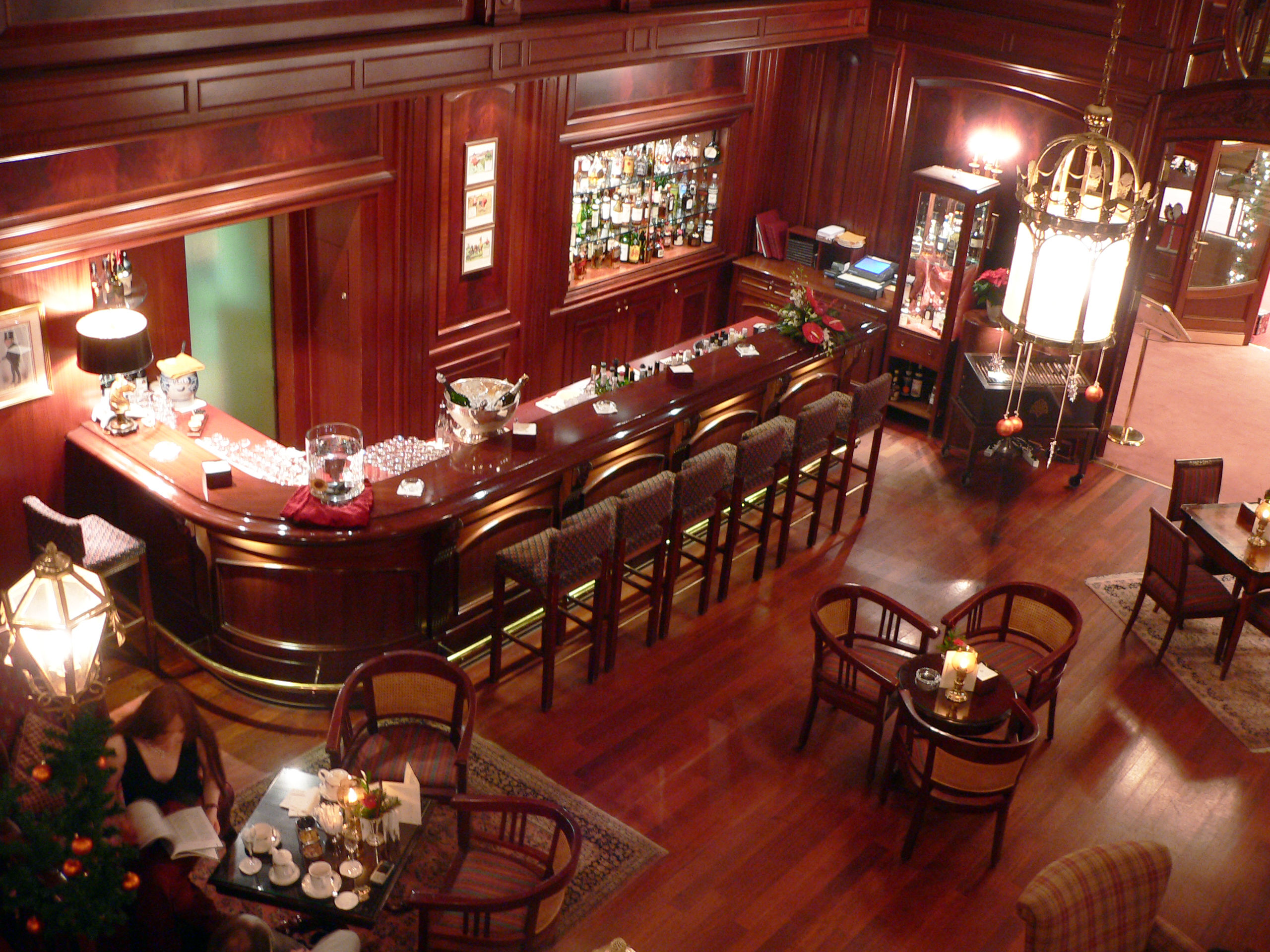 a bar in Switzerland